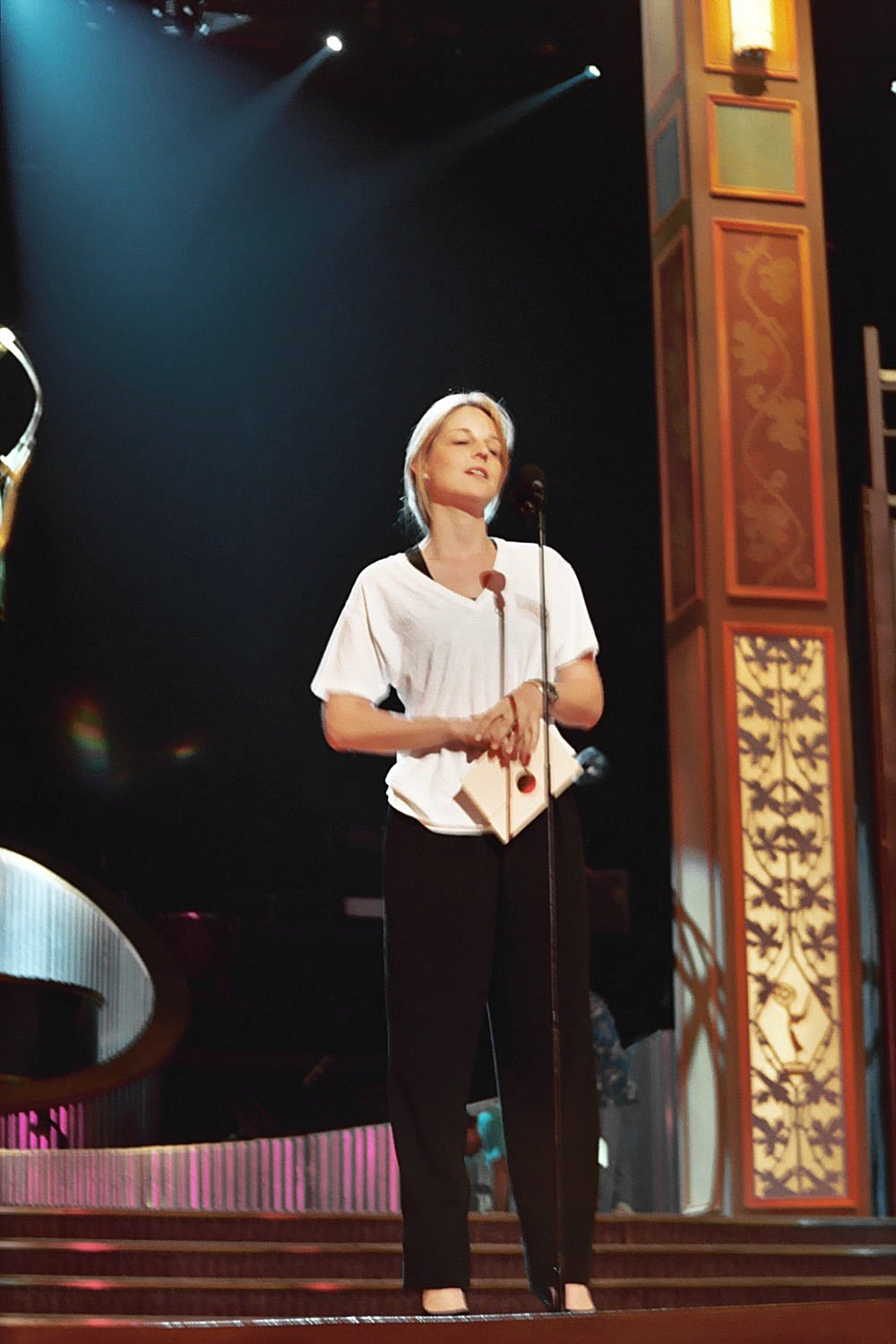 1994 Emmy Awards NOTE: Permission granted to copy, publish, broadcast or post any of my photos, but please credit "photo by Alan Light" if you can. Thanks. Scanned from the original 35MM film negative.